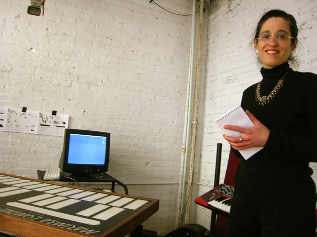 At the LEMUR musical robots lab in Brooklyn with Bettina E. Buchla Marimba Lumina Clavia Nord Lead 2